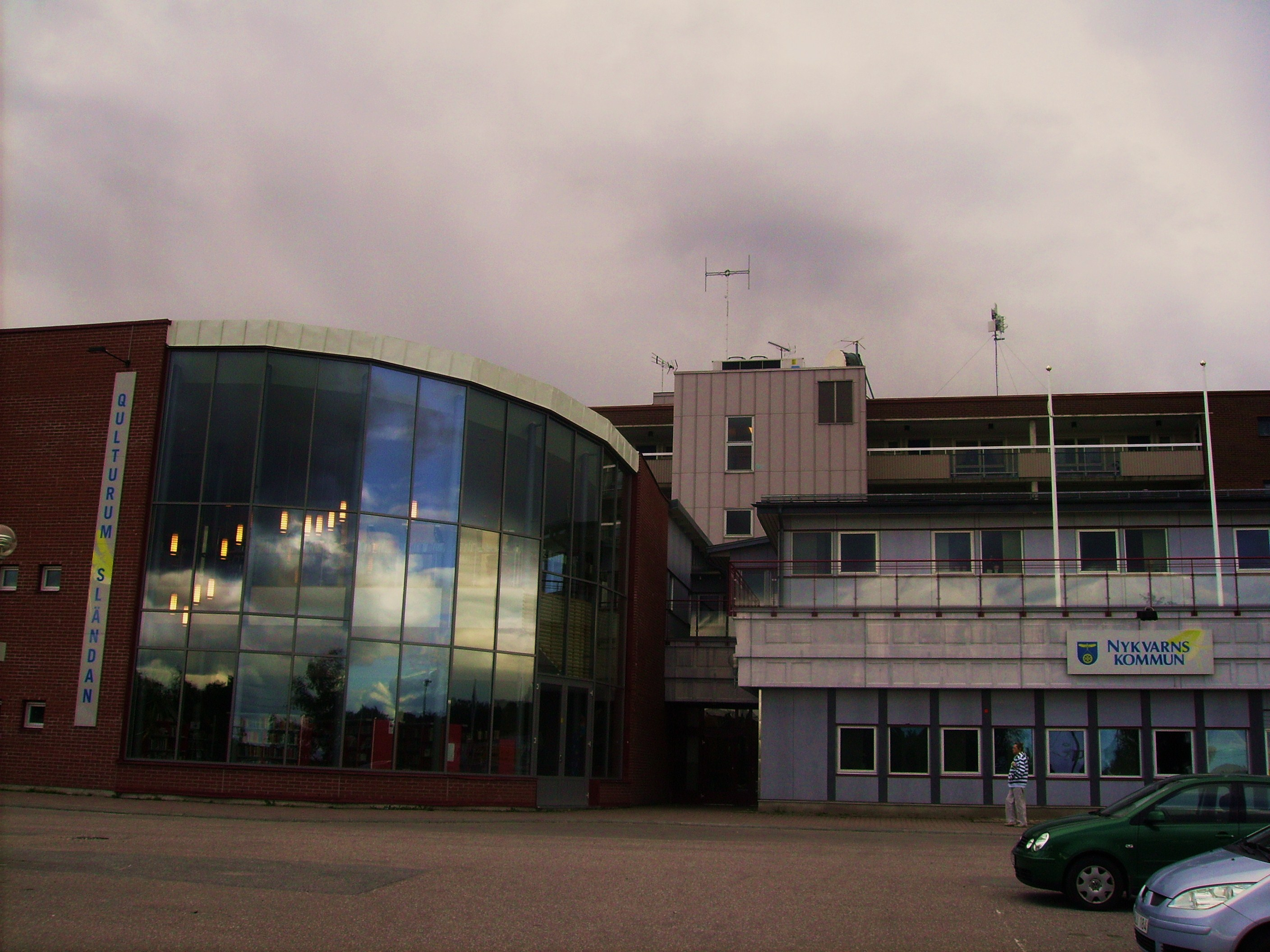 Picture of Nykvarn